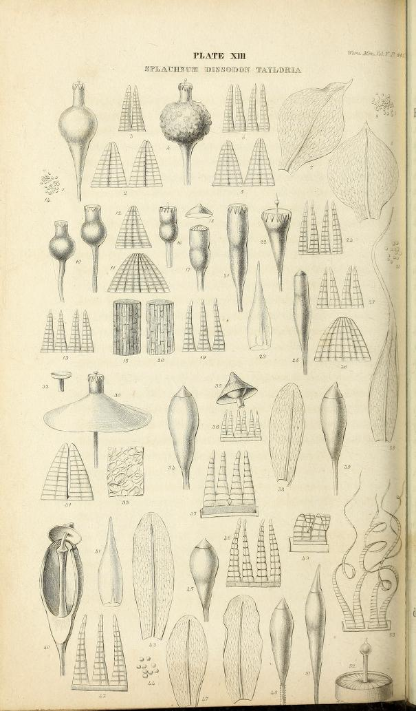 Splachnaceae plate from the original description of the bryophyte family in 1824. Illustration depicts various species of Splachnum and Tayloria.